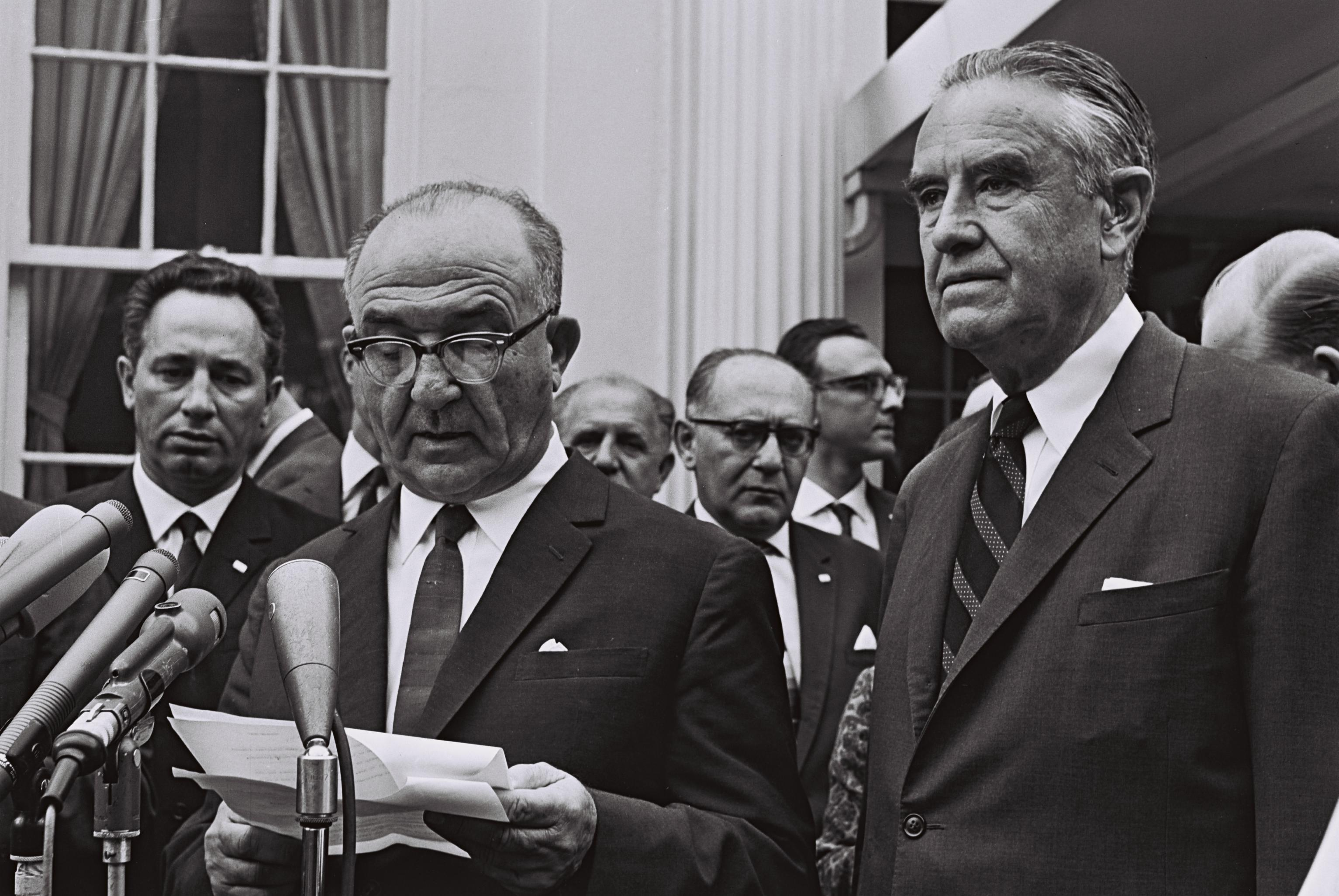 P.M. LEVY ESHKOL MAKING STATEMENT TO THE PRESS OUTSIDE THE WHITE HOUSE AFTER HIS MEETING WITH PRES. JOHNSON TO HIS LEFT UNDER SECR. OF STATE AVERELL HARRIMAN